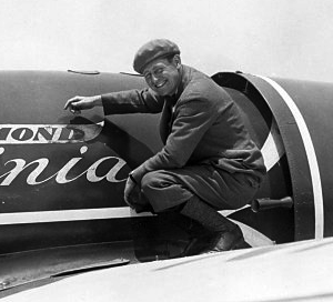 George R. Hutchinson on the wing of the Lockheed Sirius "Richmond, Virginia". This aircraft would later be rebuilt as the "Lady Southern Cross", the first aircraft to cross the Pacific from West to East.